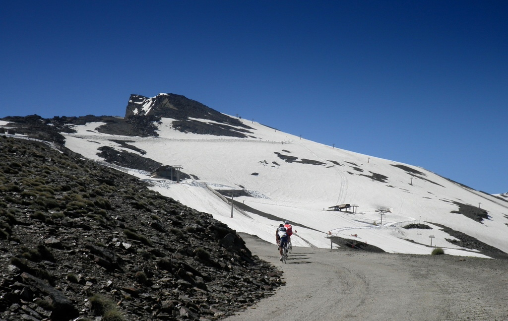 Pico del Veleta road, around 3000 m